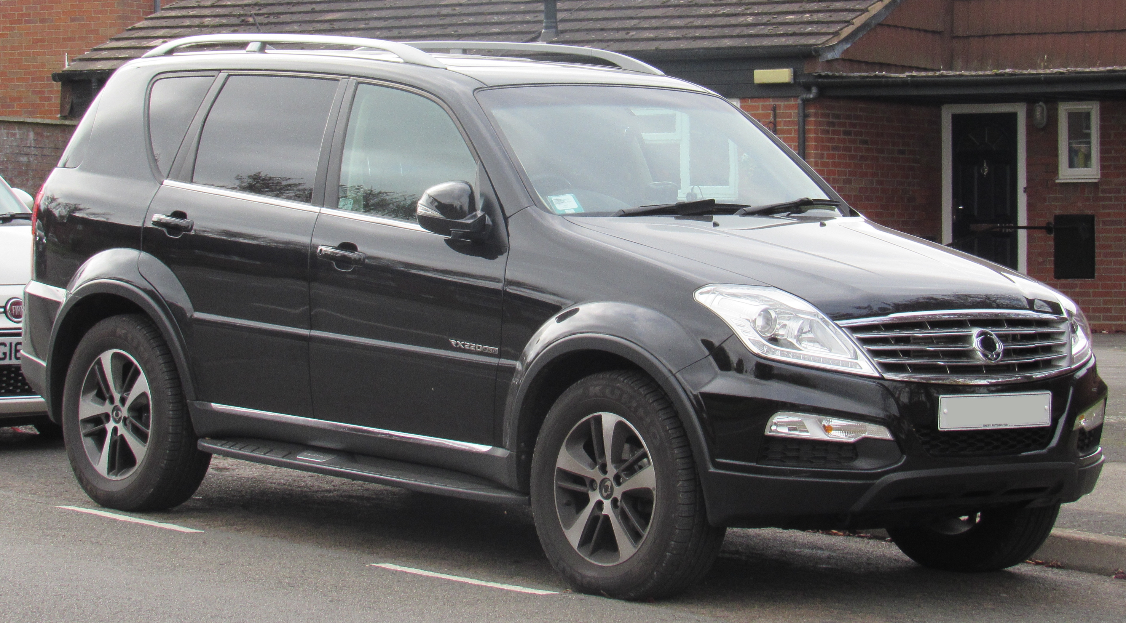 2016 SsangYong Rexton ELX Automatic 2.2 Taken in Leamington Spa